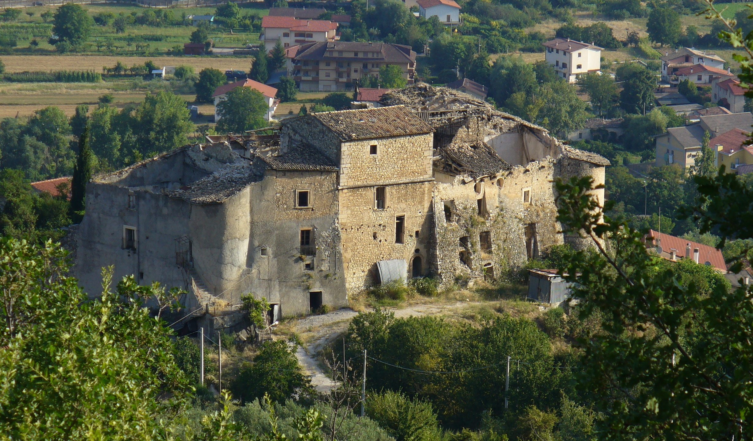 Palazzo Ducale or Rocca dello Scorpione or Castello di Sangro of Bugnara, showing damage to the roof following the 2009 Abruzzo earthquake.